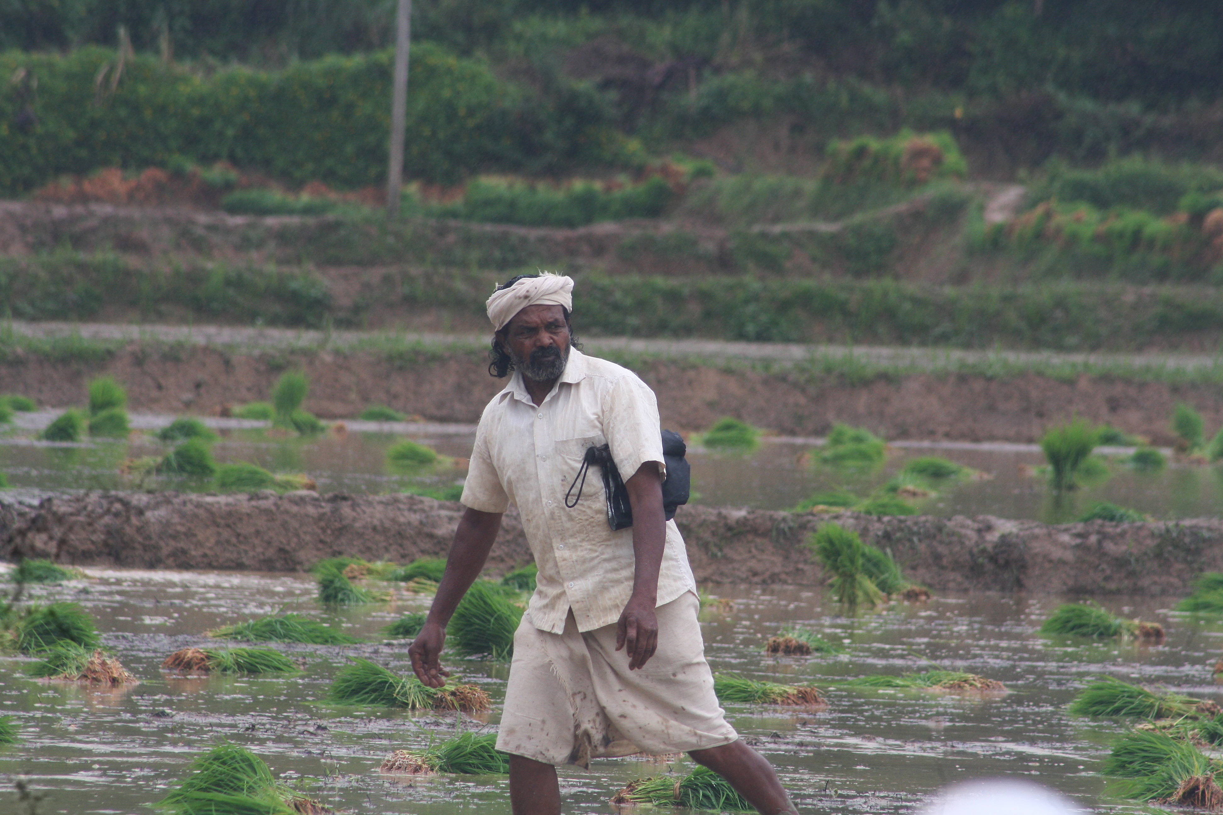 Thalakkara Cheriya Raman or Cheruvayal Raman is a tribal agriculturist in Kammana, Near Mananthavady, Wayanad District, Kerala, India. He represented Kerala in Conference of eleven countries for Biodiversity conservation conducted at Hyderabad.